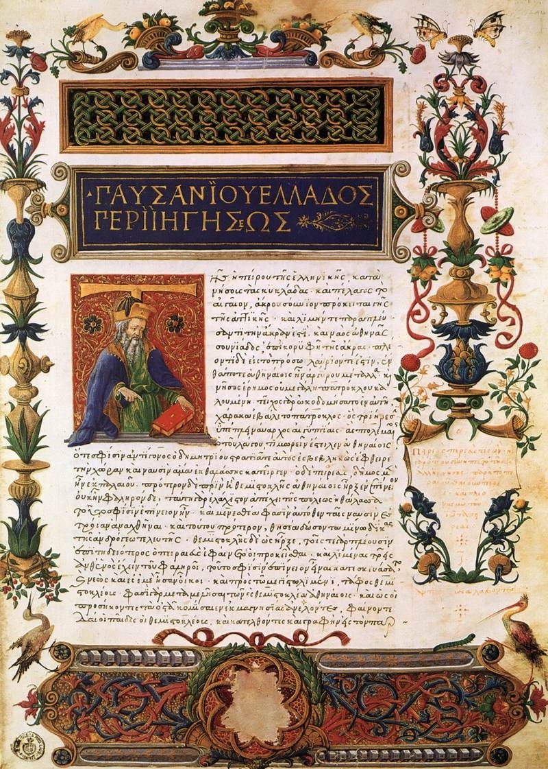 Manuscript of Pausanias' Description of Greece at the Biblioteca Medicea Laurenziana